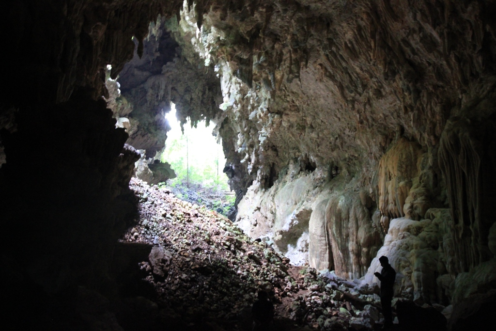 CuevasCandelaria4